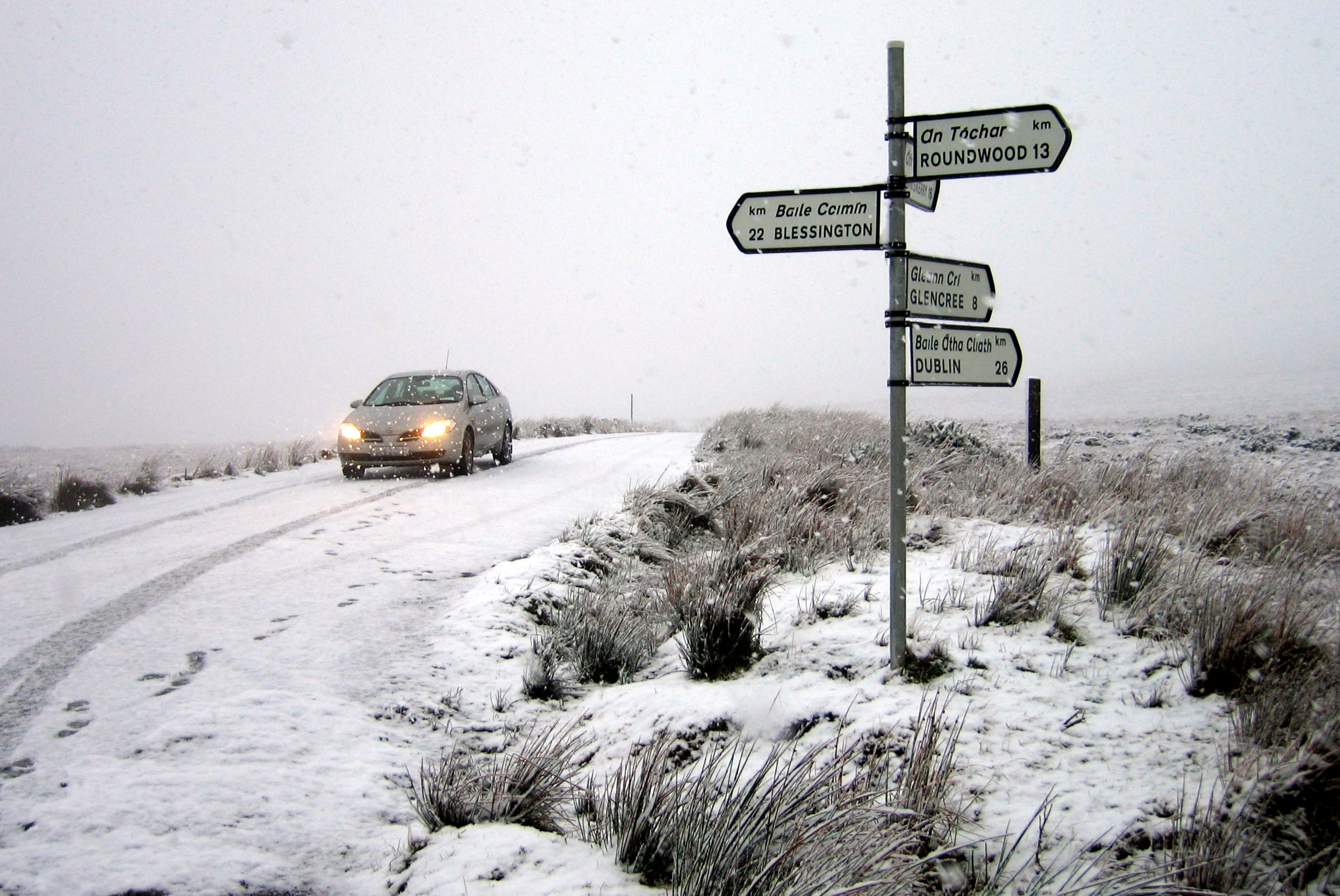 Sally Gap, Ireland; crossroads where "The Military Road" (R115) running North/South crosses the Sally Gap road (R759) crossing the Wicklow Mountains East/West.